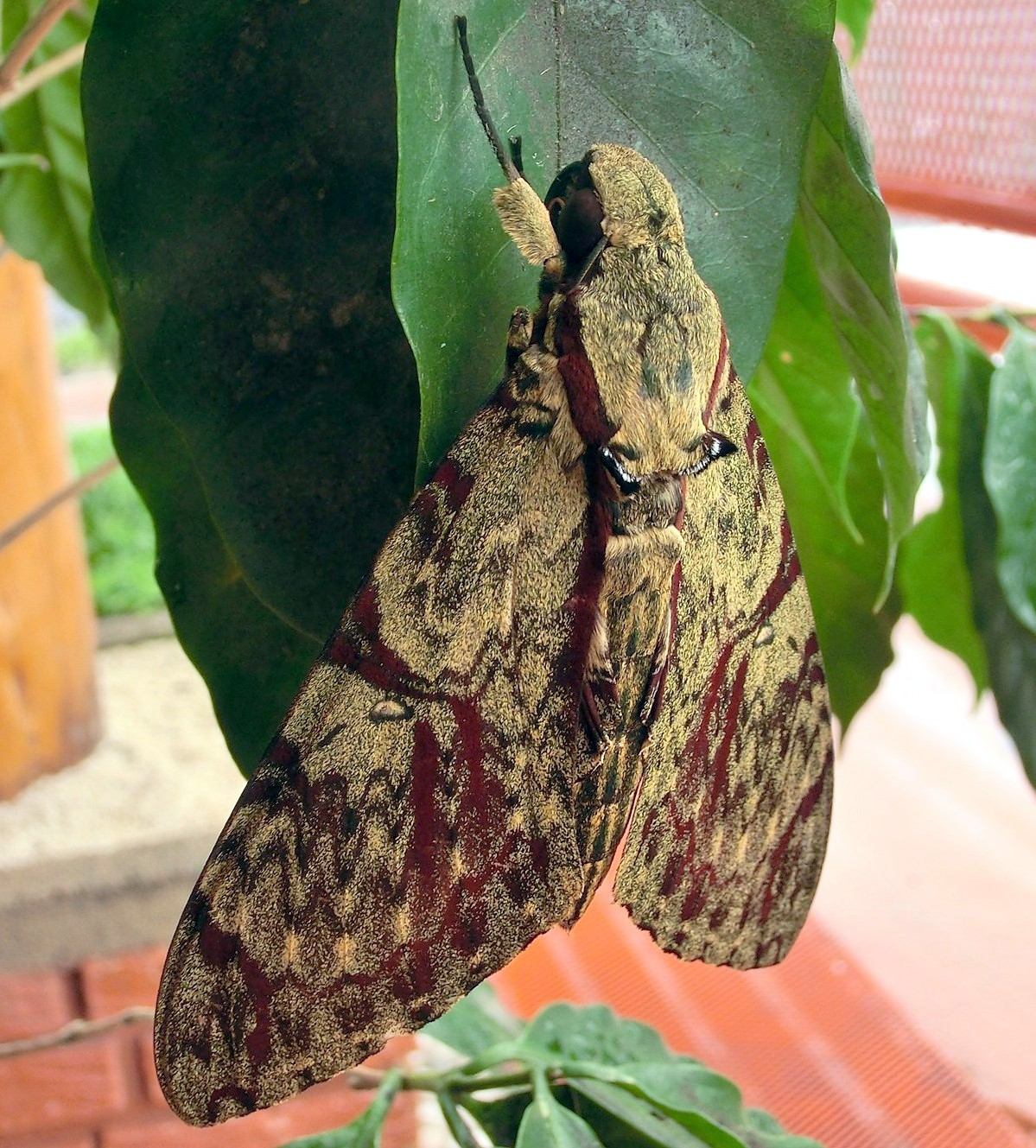 Amphimoea walkeri. Costa Rica, Cordillera Central N of San José, at Cariblanco service station/resthouse.